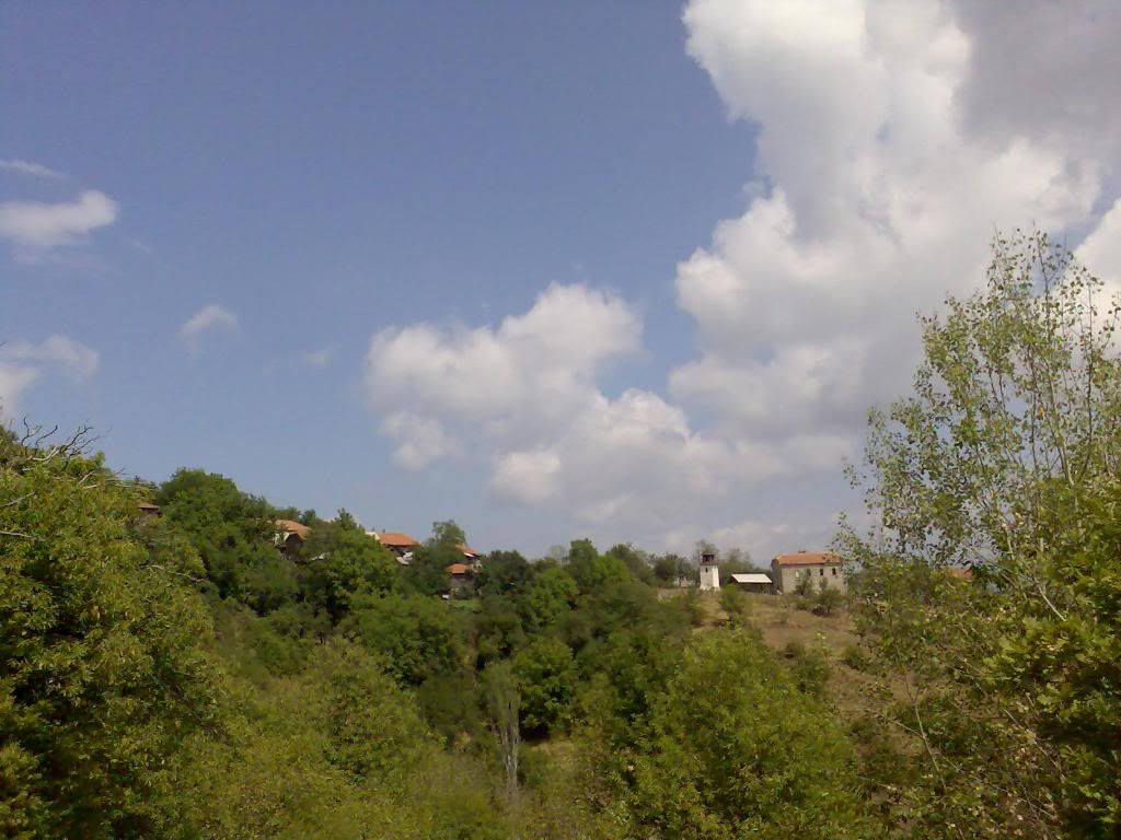 Village of Sushitsa, Poreche region, Republic of Macedonia